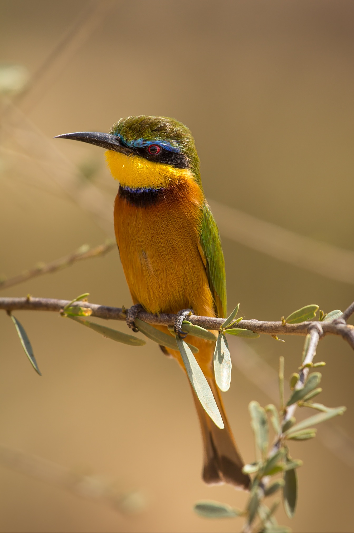 From Samburu National Reserve